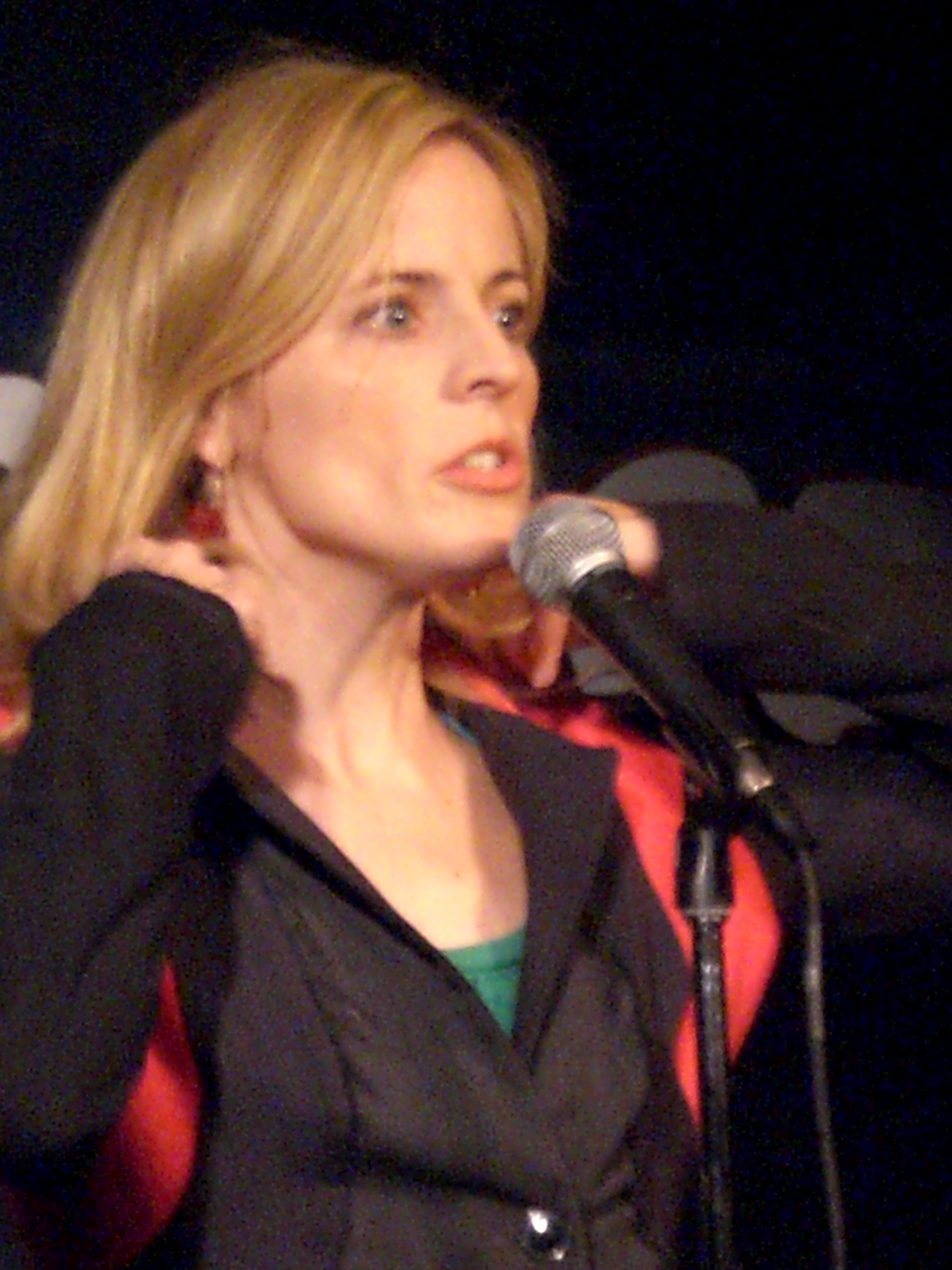 Stand-up comic Maria Bamford.